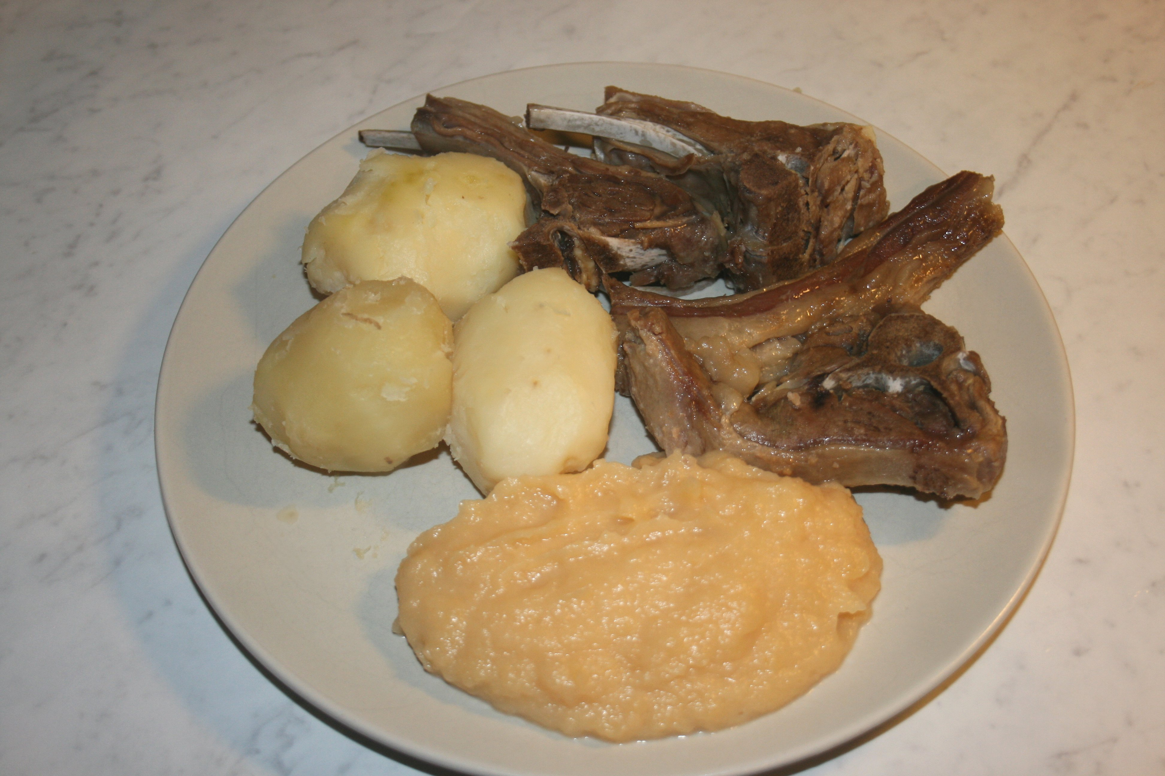 Pinnekjøtt, sheep's meat steamed over branches, typical Christmas dish Norway